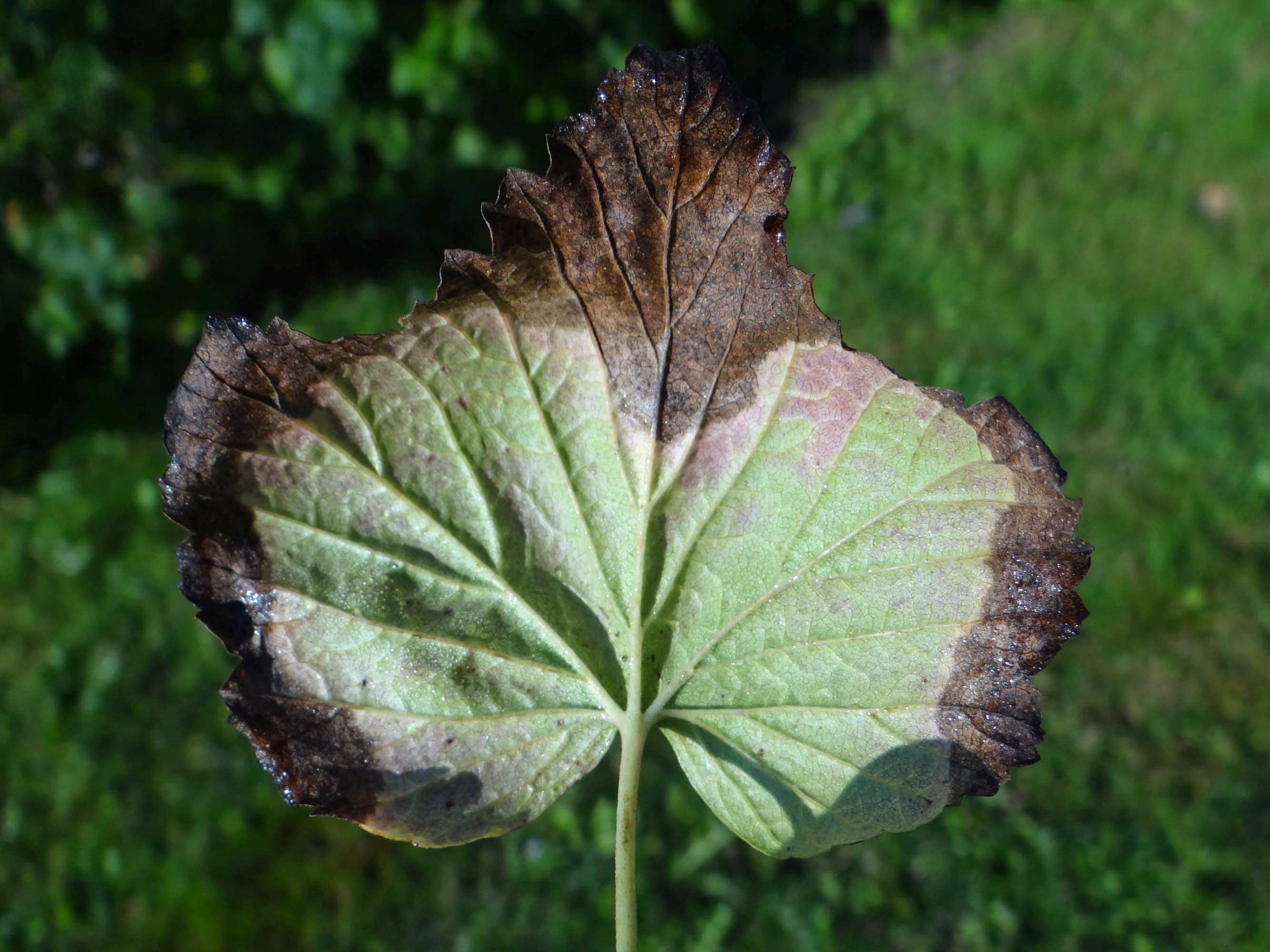 Drepanopeziza ribis on Ribes sp.(location: Poland)